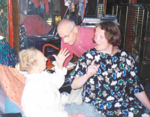 Lucette Destouches (née Almanzor), François Gibault and Maroussia Klimova